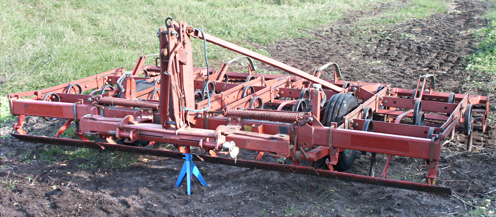 Spring-tooth harrow 3,6m wide